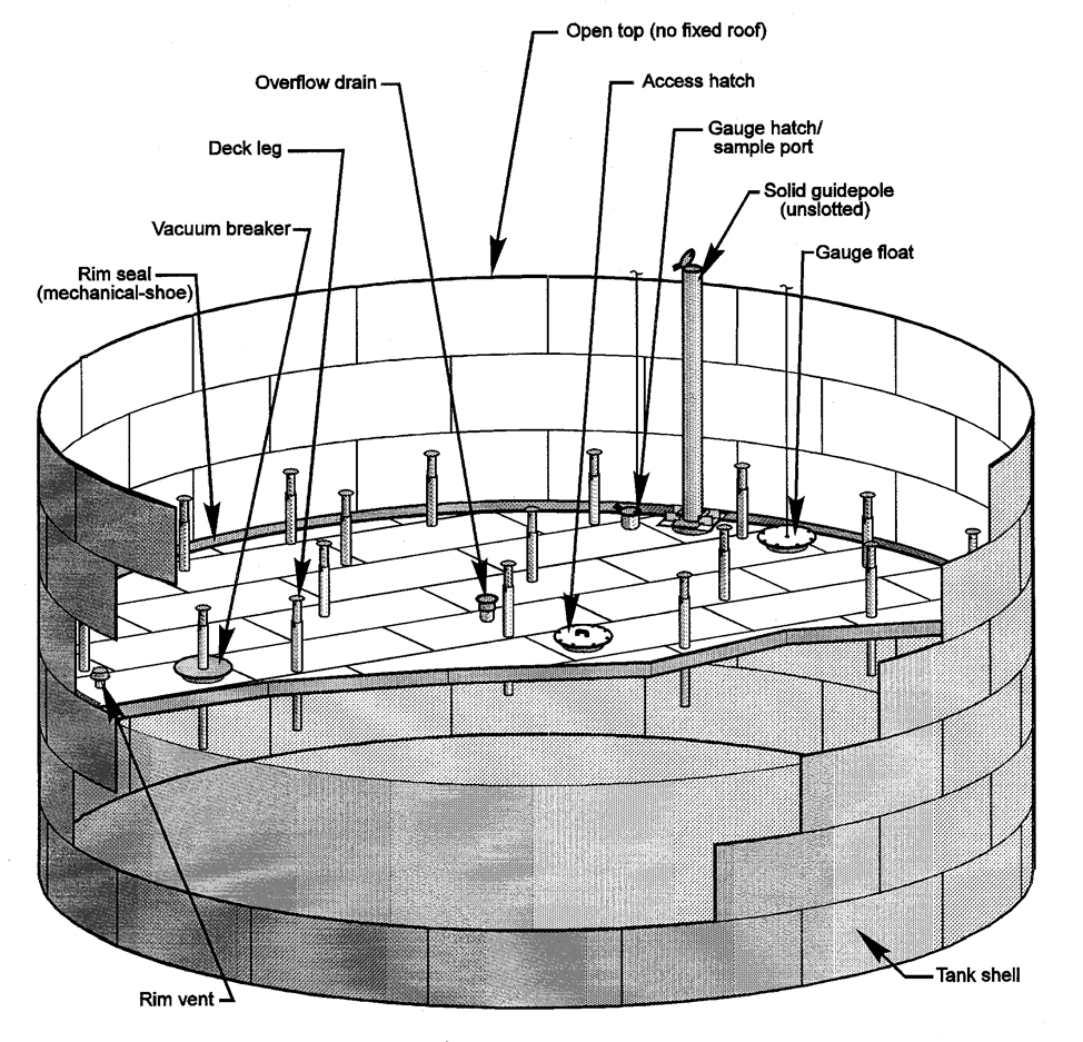 External floating roof tank (EFRT) of the double deck type, typically used for volatile petroleum products